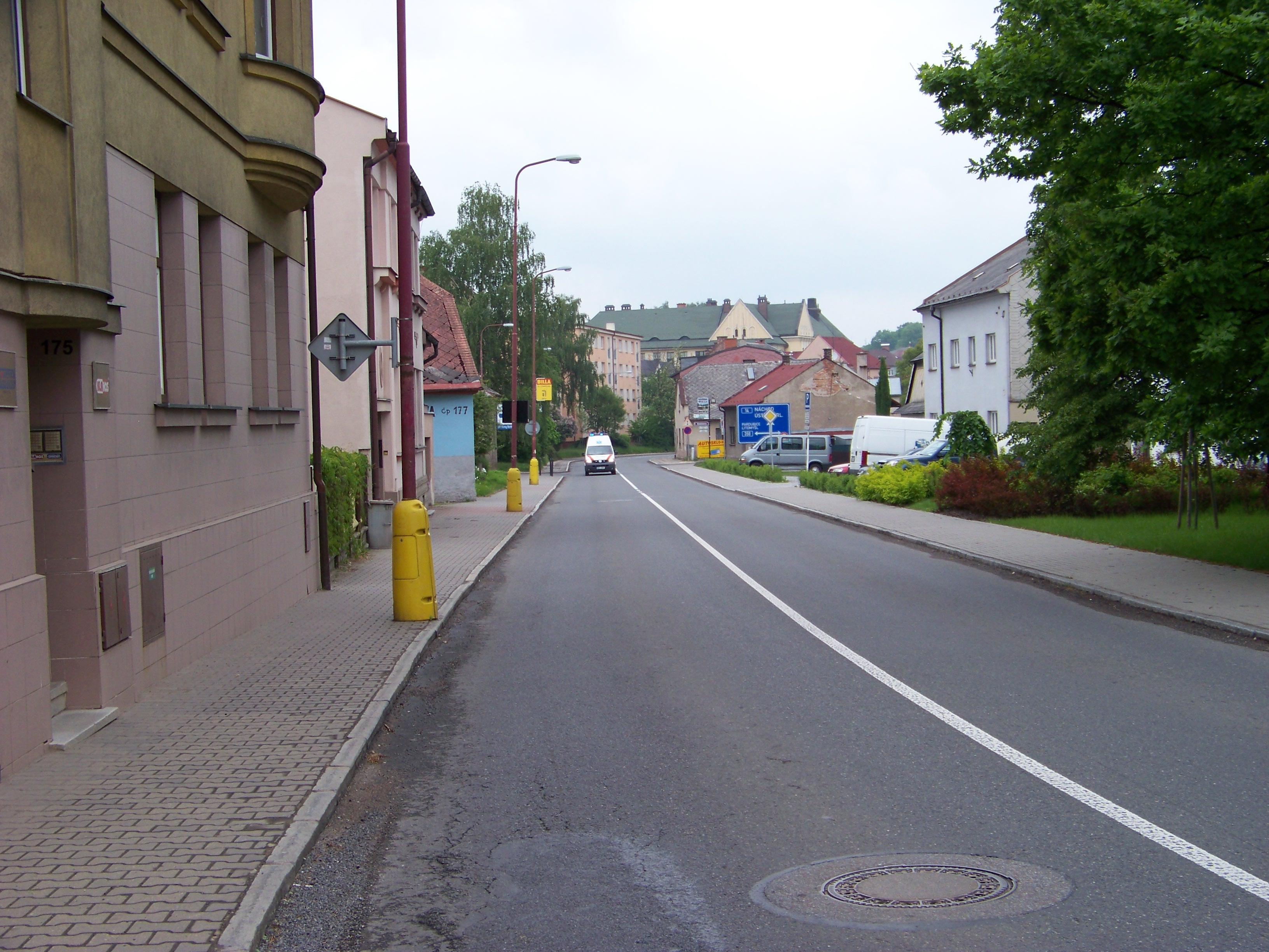 Česká Třebová, Ústí nad Orlicí District, Pardubice Region. Riegrova street. - OpenStreetMap(Info)